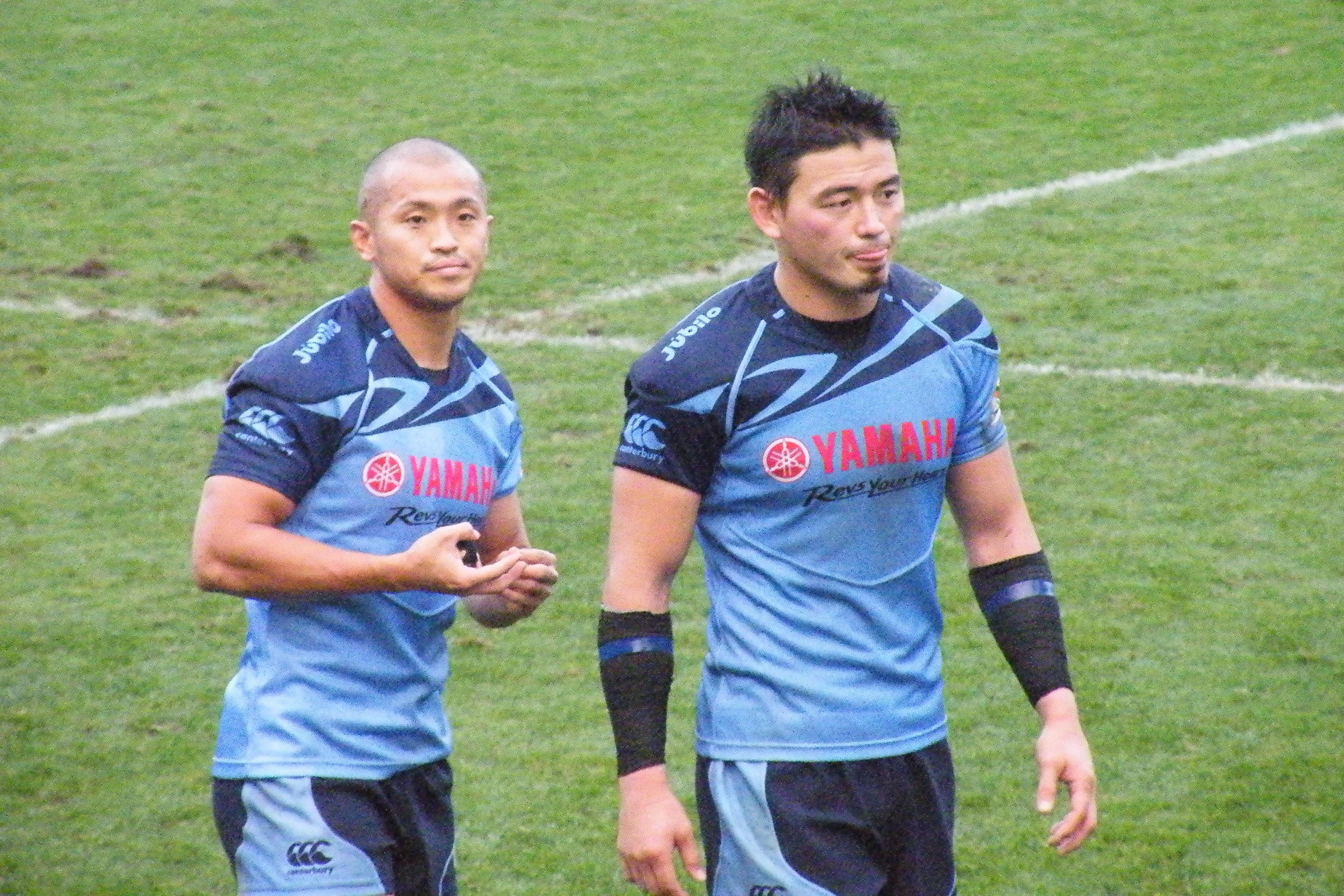 Rugby players from Yamaha Jubilo in Japan: Yuki Yatomi (left) and Ayumu Goromaru (right)